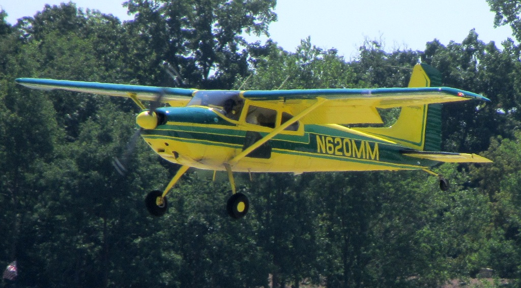 1957 Cessna 180A